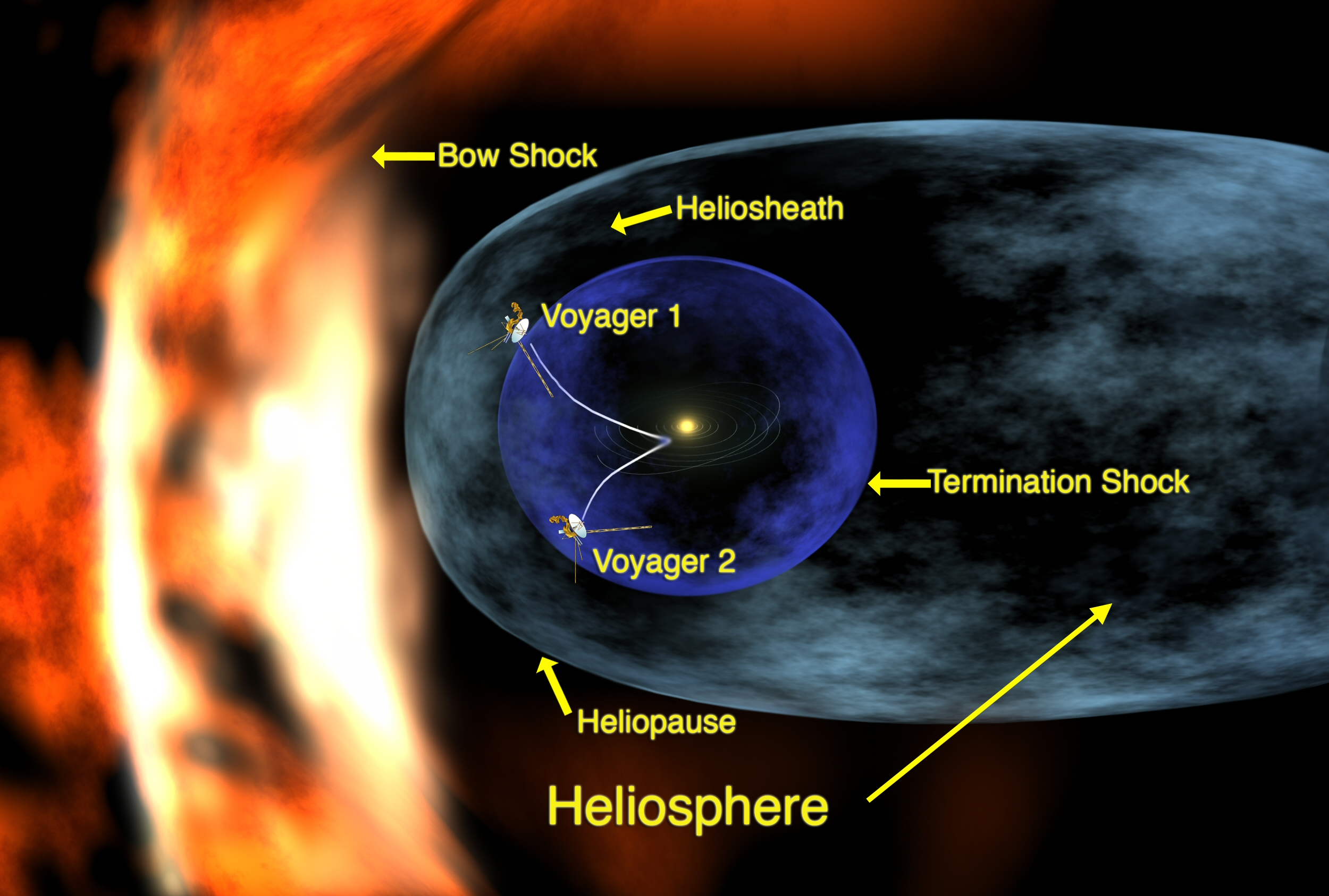 This image shows the locations of Voyagers 1 and 2. Voyager 1 is traveling a lot and has crossed into the heliosheath, the region where interstellar gas and solar wind start to mix. Suggested for English Wikipedia:alternative text for images: orange area at left labeled Bow Shock appears to compress a pale blue oval-shaped region labeled Heliosphere extending to the right with its border labeled Heliopause. A central dark blue circular region is labeled Termination Shock with the gap between it and the Heliosphere labeled Heliosheath. Centred in the blue region is a concentric set of ellipses around a bright spot with two white lines curving away from it: the upper line labeled Voyager 1 ends outside the dark blue circle; the lower line labeled Voyager 2 appears inside. Remark: This picture is from 2005. Today (3 October 2018) Voyager 1 is well beyond the Heliopause and Voyager 2 is about to cross the Heliopause soon (see the latest "3 October 2018" image).[1] Further, there has been evidence that the Bow Shock does not exist; whether the Heliosheath has this long of a tail is doubtful, too. It might be almost spherical.